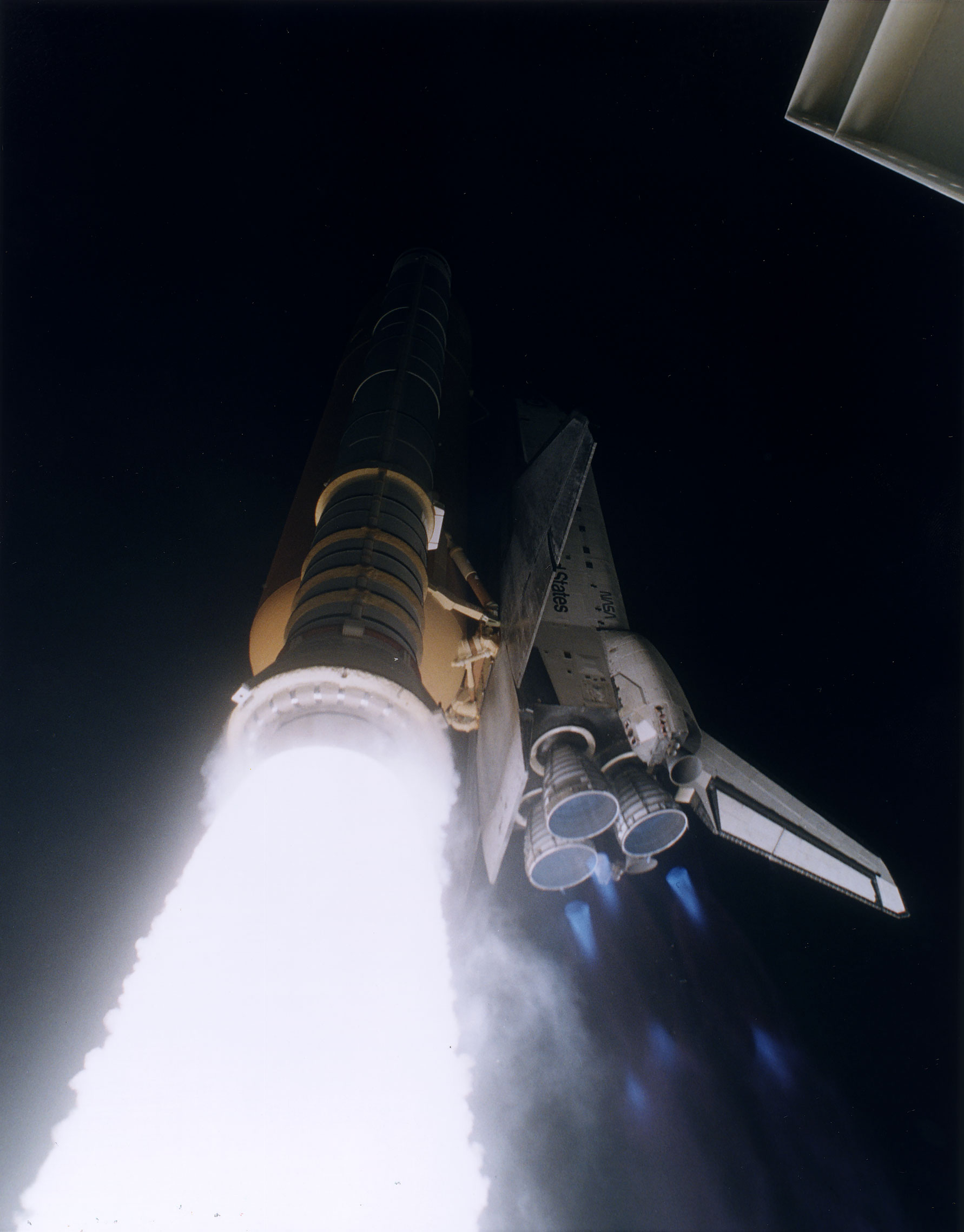 Kennedy Space Centre, Florida - Space Shuttle Atlantis launches at the beginning of the STS-79 mission to Space Station Mir.